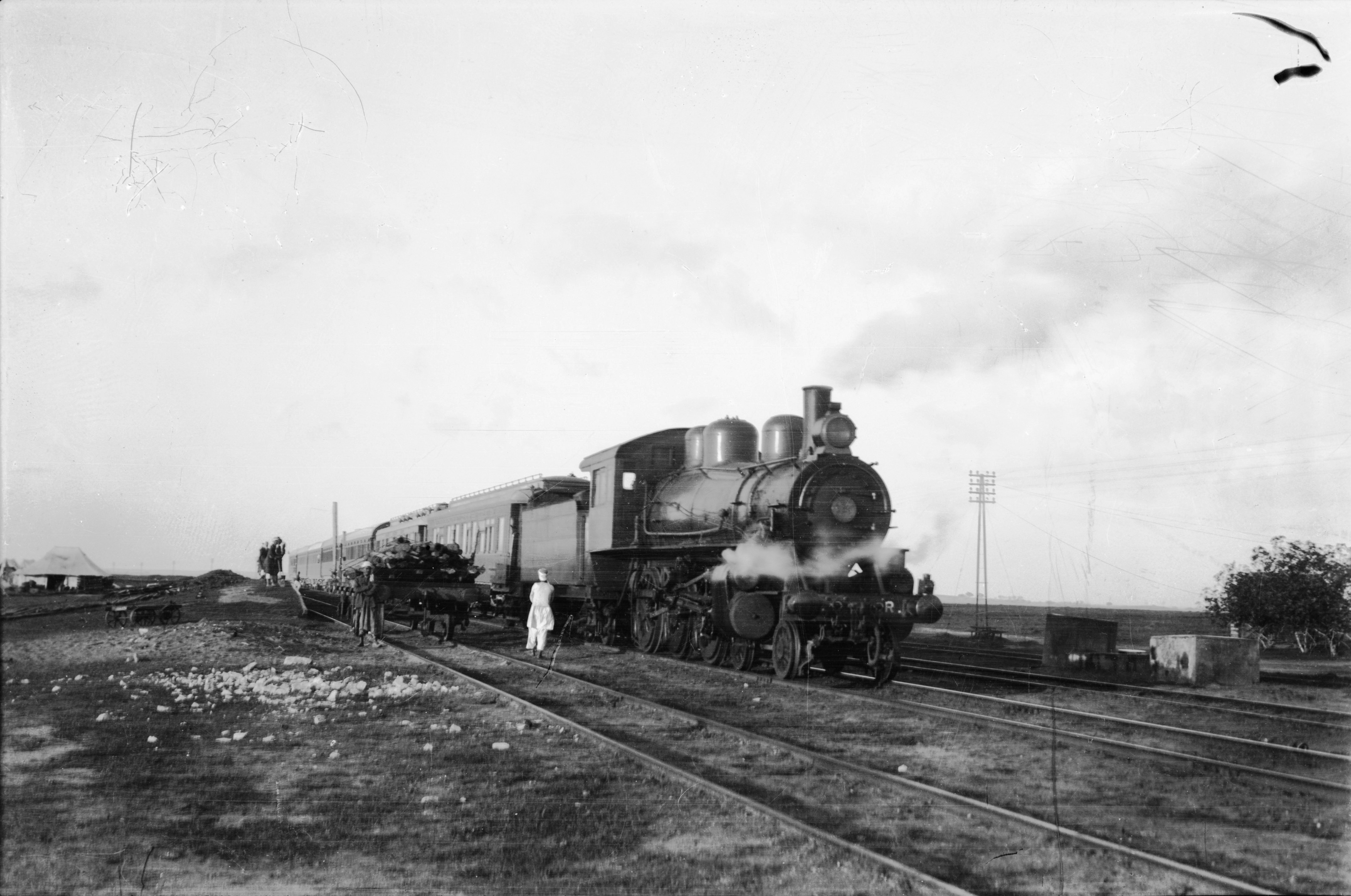 To Sinai via the desert. Train crossing the Sinai Desert, Jerusalem-Kantara